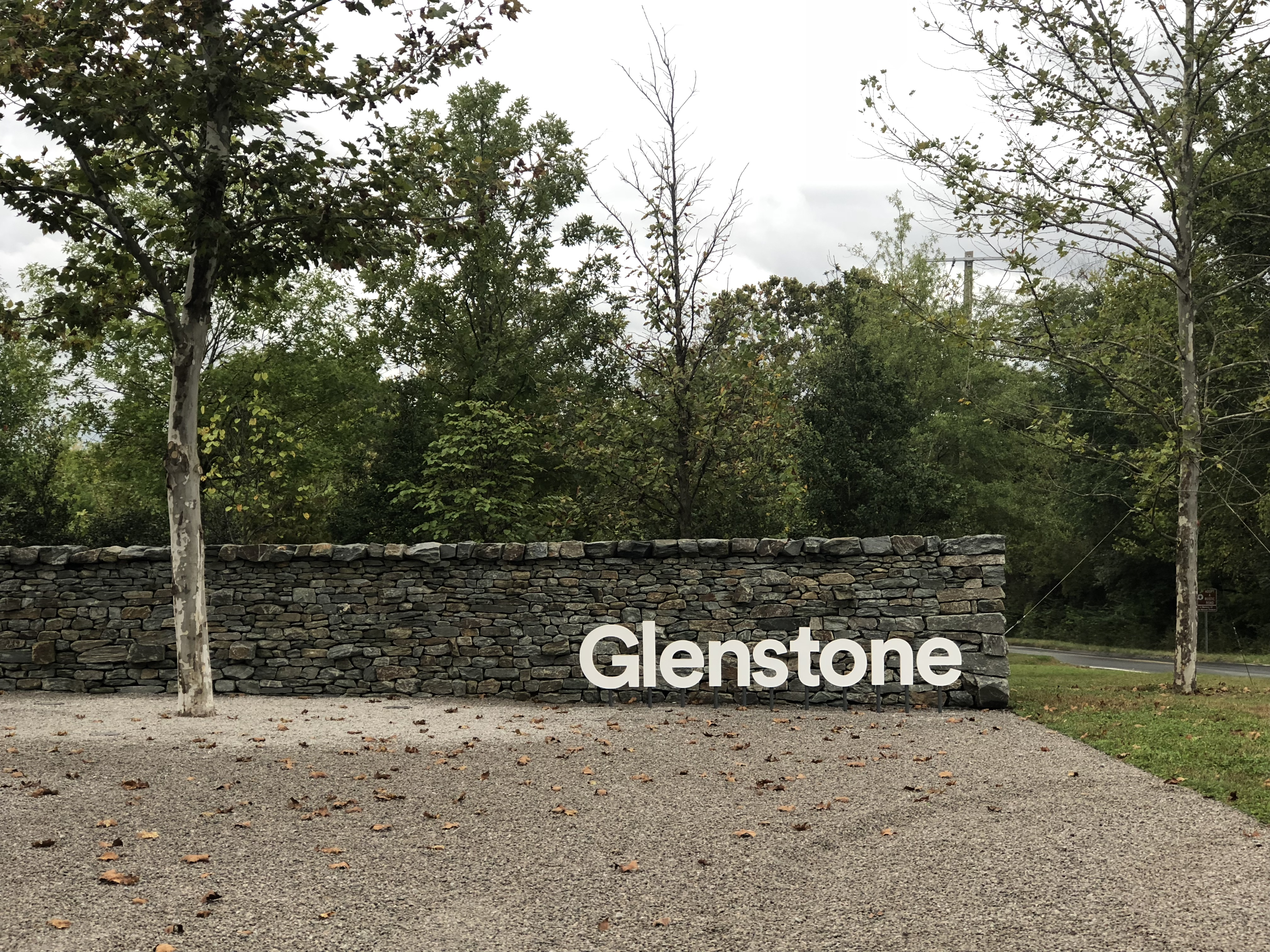 Glenstone museum in Potomac, MD. 2018-10-11